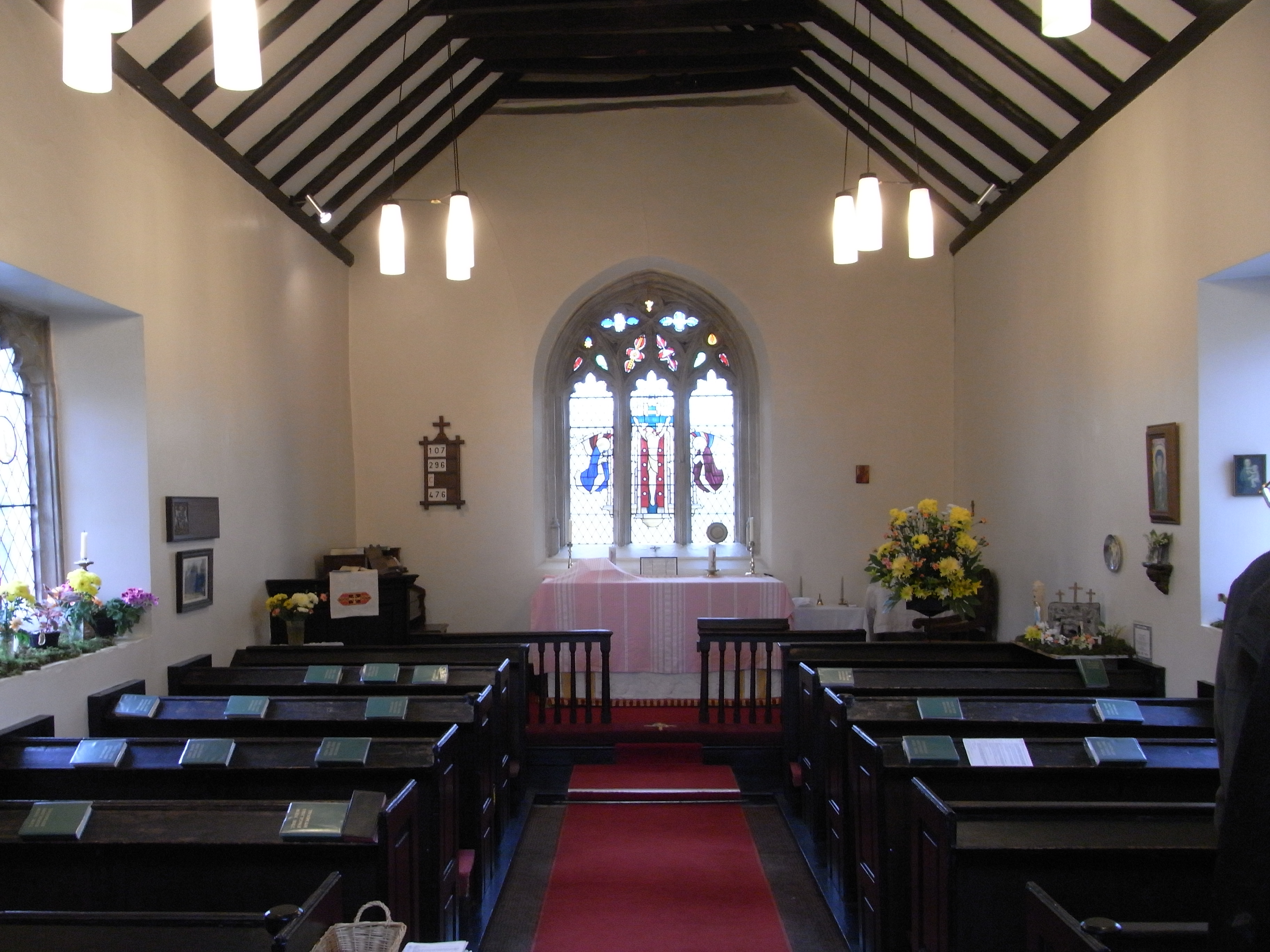 Interior of Chapel of Saint Clarus, Livery Dole, Heavitree, Exeter. Looking from western doorway eastward towards altar